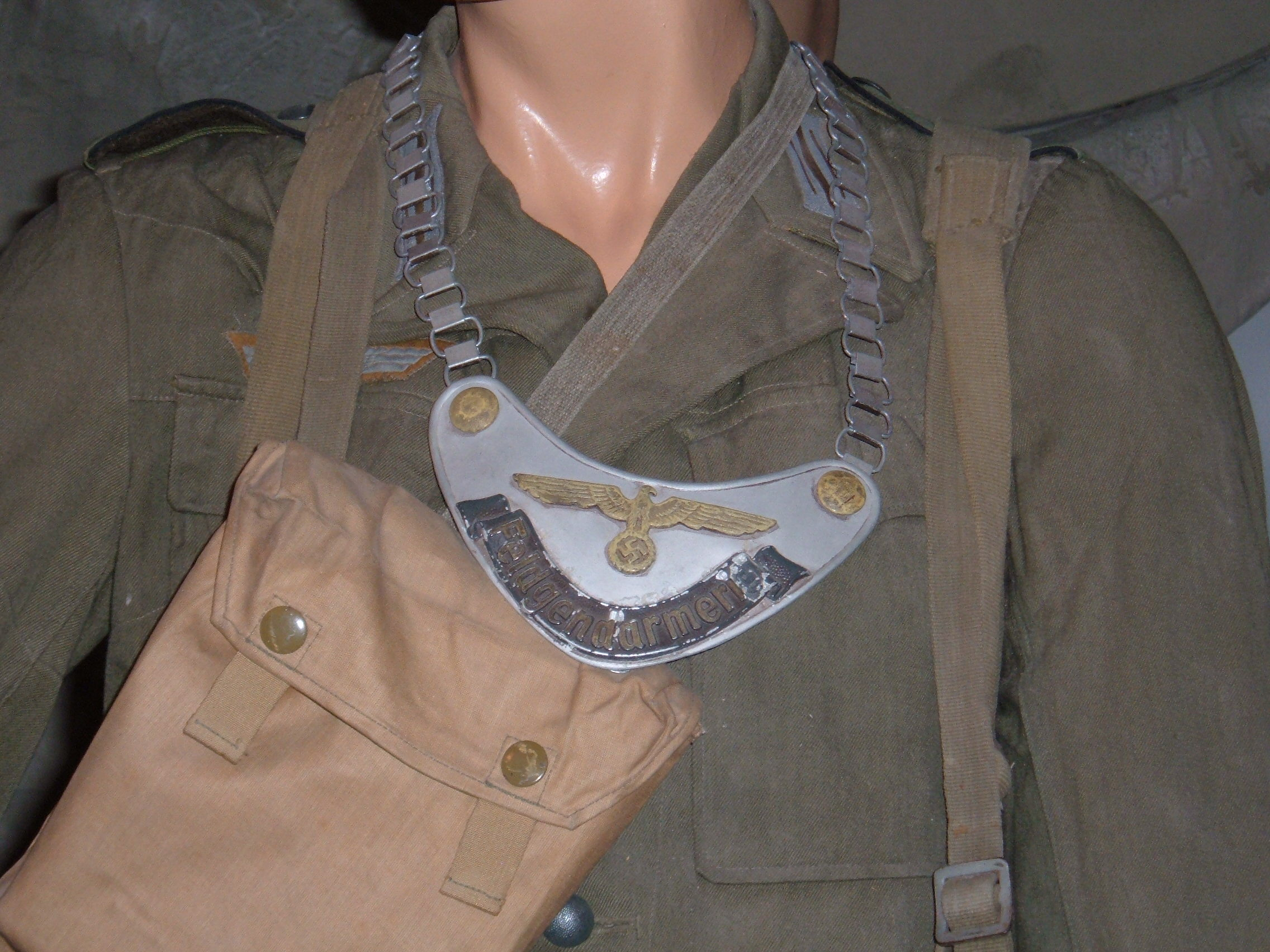 A Wehrmacht Feldgendarmerie gorget on display at the Sgt. Richard Penry Medal of Honor Memorial Military Museum in Petaluma, California.